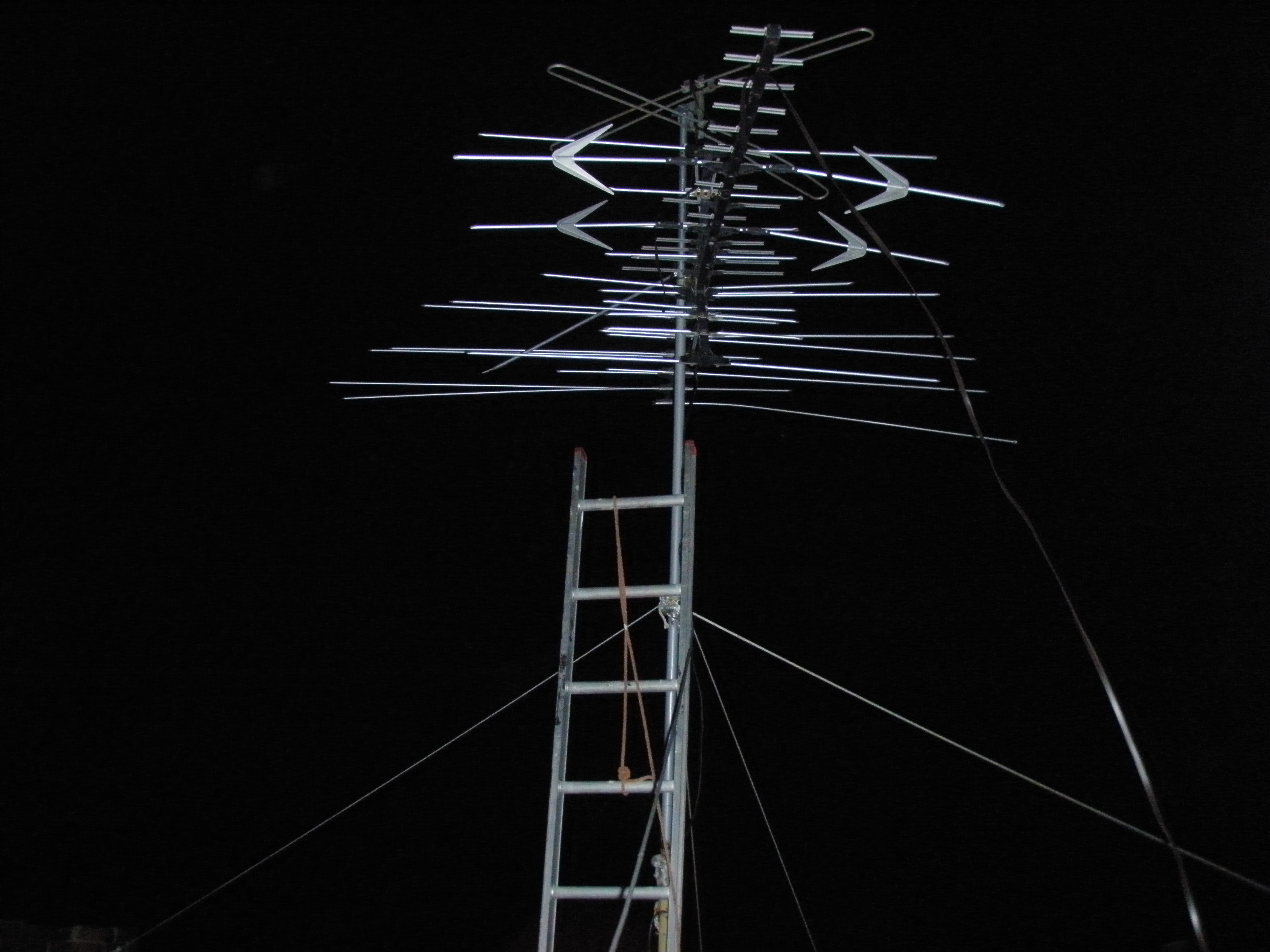 A large rooftop television antenna for terrestrial television reception. This is probably a Winegard HD-7084P VHF/UHF which has 68 elements (rods). This is a complicated type of Yagi antenna. A crossed-dipole FM antenna barely visible behind the TV antenna.